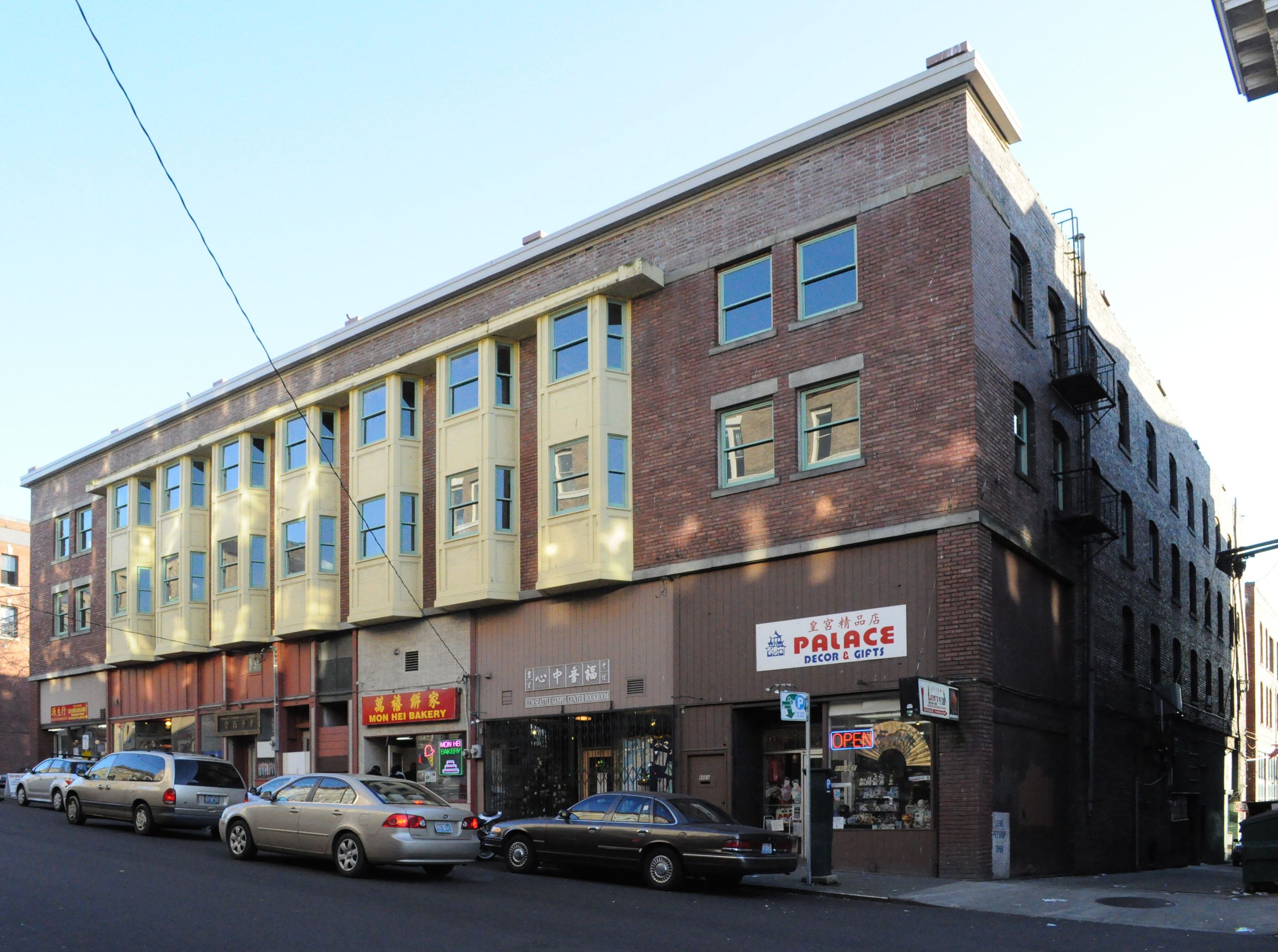 Louisa Hotel at 665 S King St in Seattle, Washington (photographed in 2009). Photograph has been processed in Hugin to remove keystoning and make vertical lines vertical.